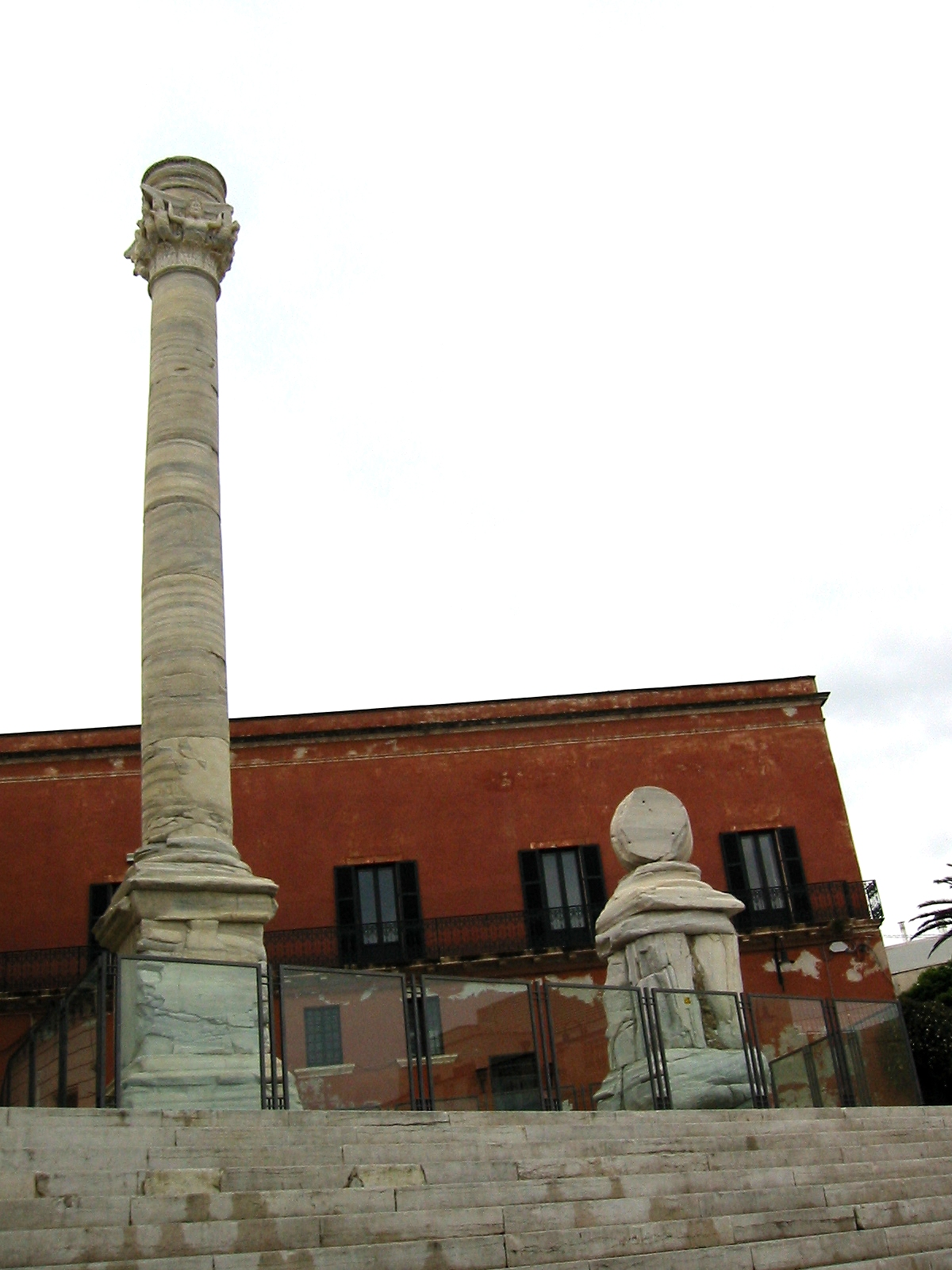 Two columns mark the end of the Via Appia at the harbour of Brindisi